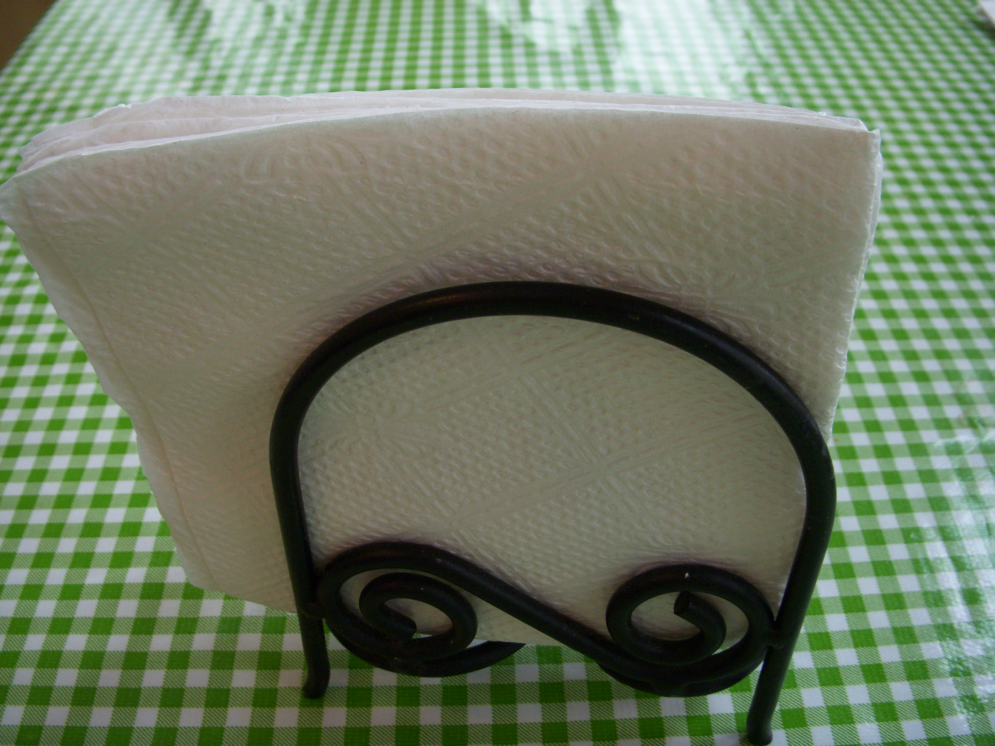 A photo of a napkin holder I took.